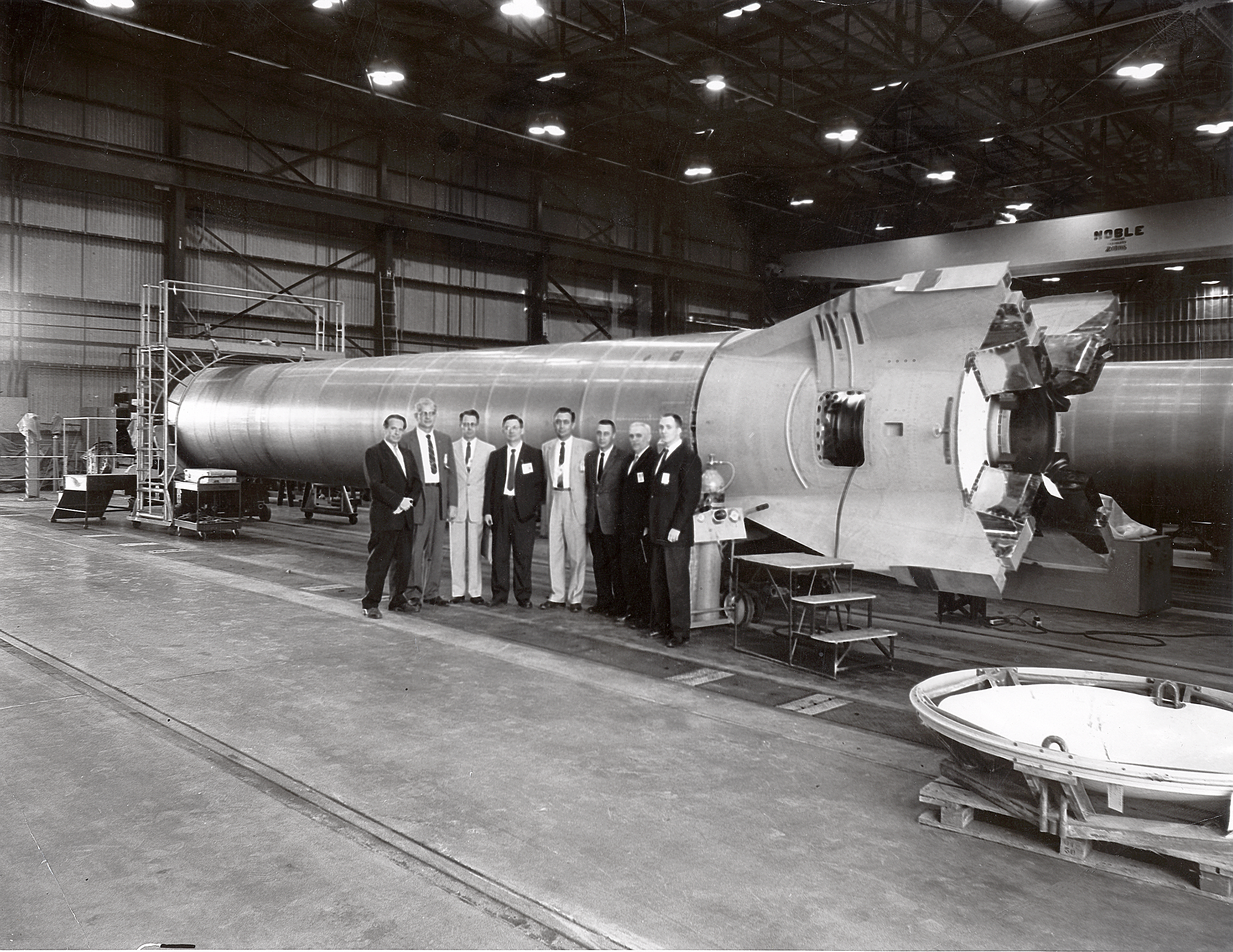 A group of officials standing before a Mercury-Redstone booster at the Marshall Space Flight Center (MSFC). Among those in the photograph are astronaut Gus Grissom and Joachim Kuettner, who managed responsibilities of MSFC's Mercury-Redstone program.